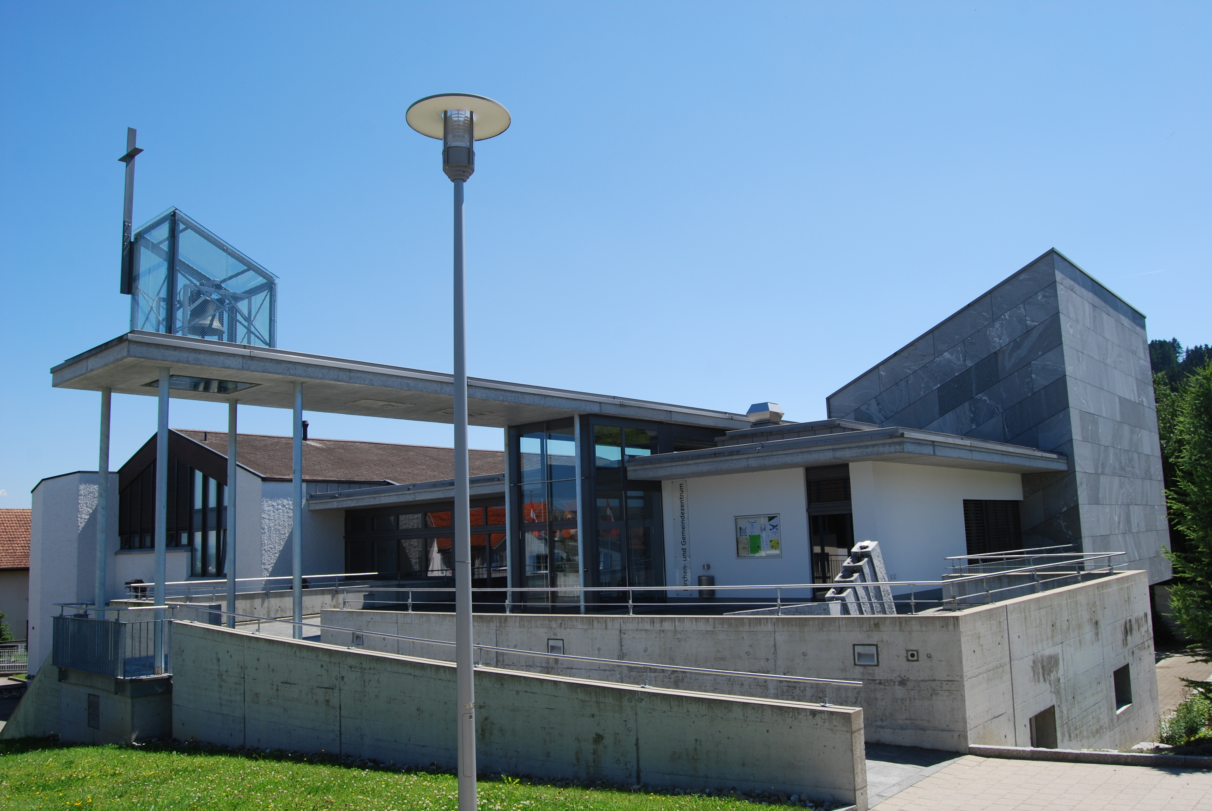 Church and Municiapal Center of Wilen, canton of Thurgovia, Switzerland